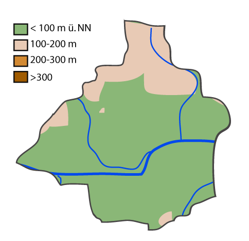 Maps of Kreis Herford (Germany) series. Shows various kinds of information including topographical, demographical, and use of land information for all communities of Kreis Herford and the district of Herford itstelf.